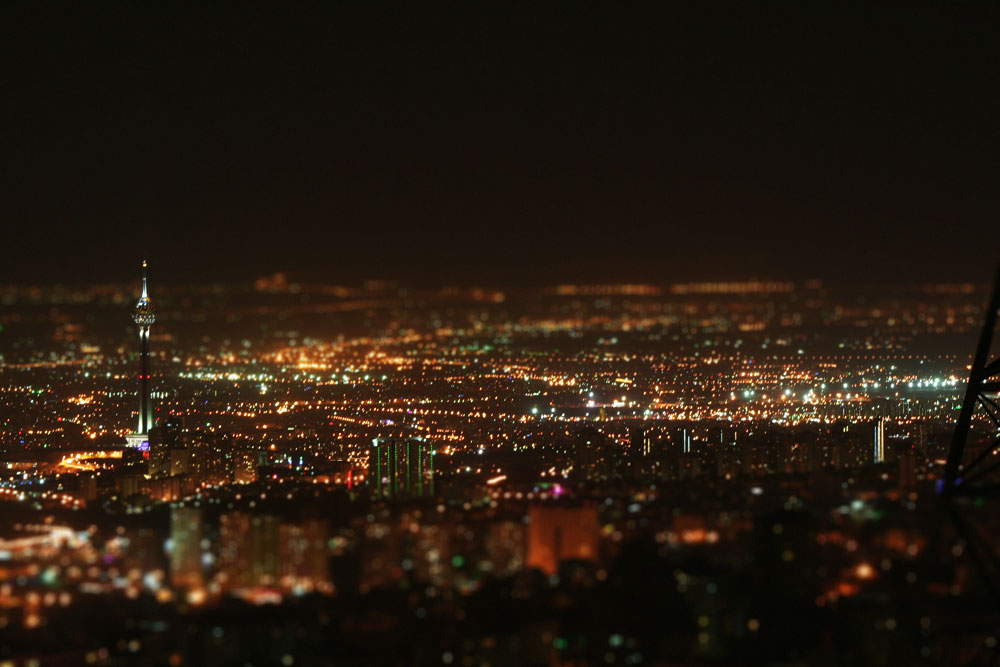 Tehran at night